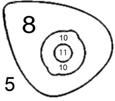 Scoring zones on 3D archery Czech Republic.